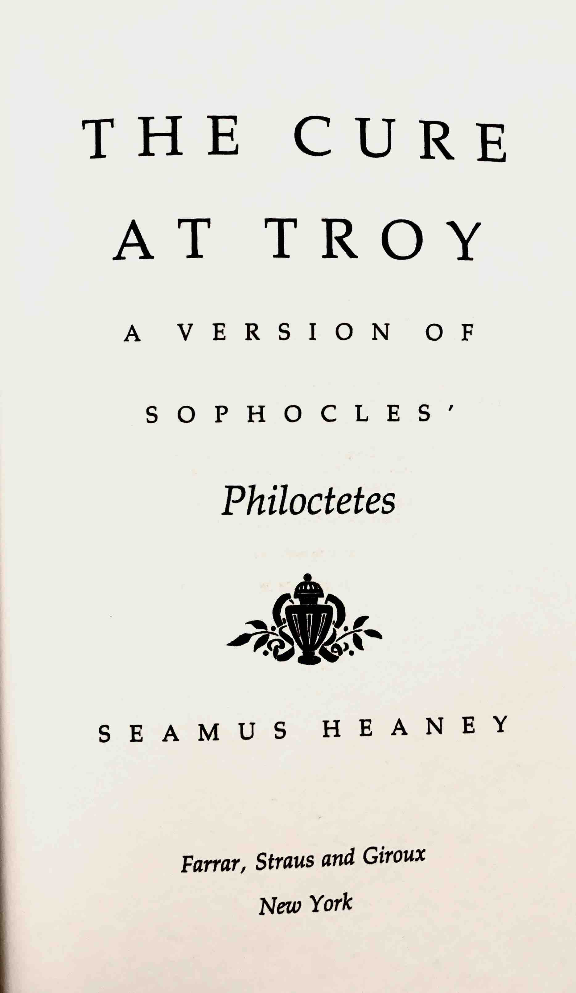 The Cure at Troy by Seamus Heaney frontispiece from the first American addition